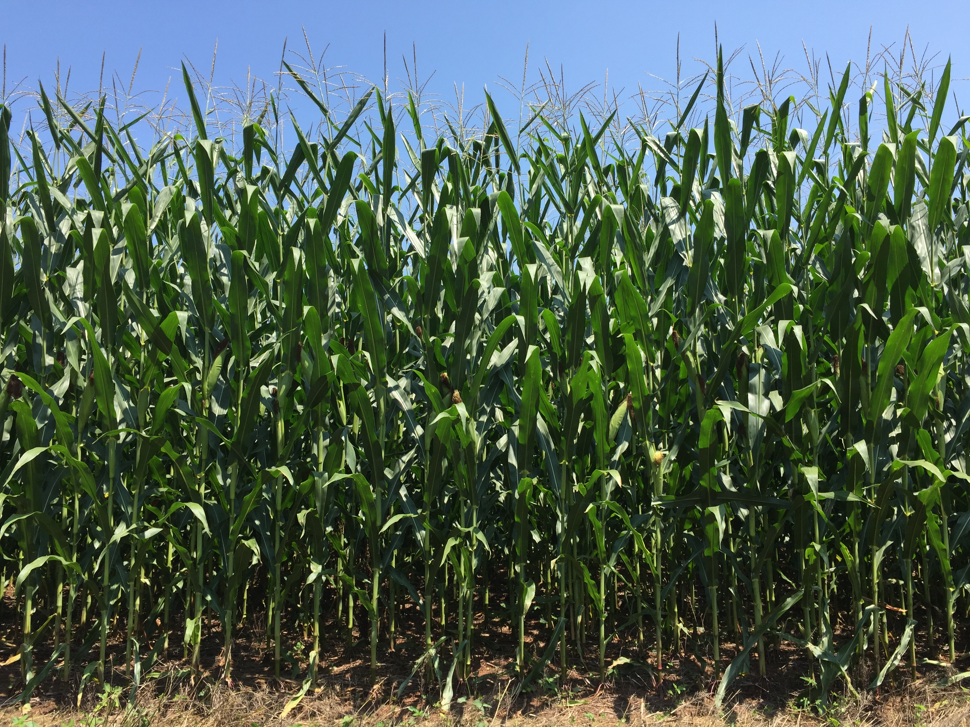 Corn field along Virginia State Route 230 (Orange Road) just west of U.S. Route 15 (James Madison Highway) in Madison Mills, Madison County, Virginia